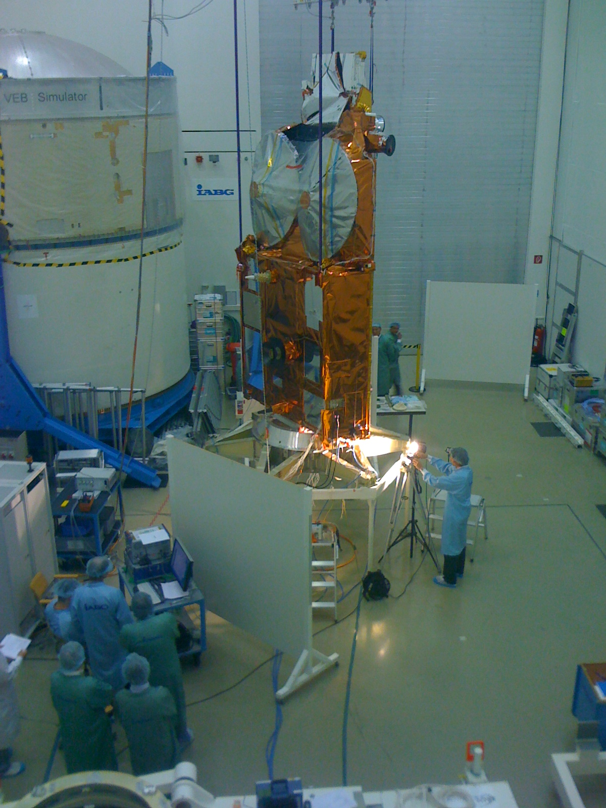 ESA Satellite CryoSat-2 at IABG testbed in Ottobrunn